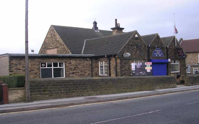 Drighlington Tempest Constitutional Club - Bradford Road